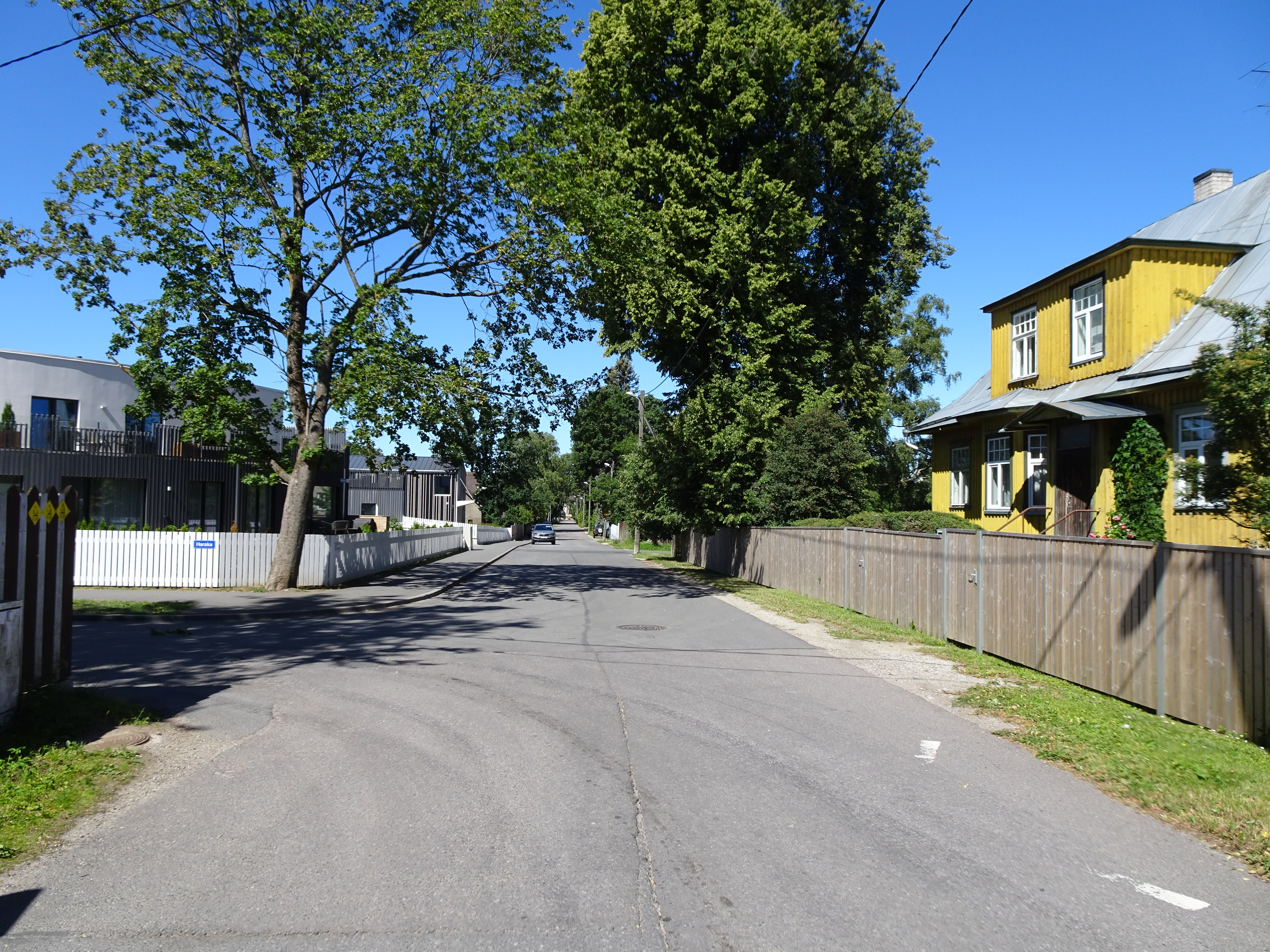 Lõokese Street in Tallinn, Estonia